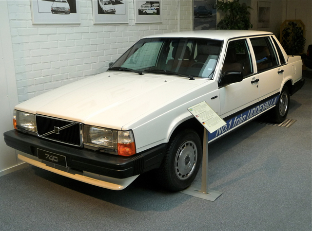 The first Volvo to be produced at the Volvo Uddevalla Plant. This Volvo 740 was produced in 1988. On the side: "No 1 from Uddevalla" The Plant was shut down in 1993. Photo taken at the Volvo Museum in Göteborg